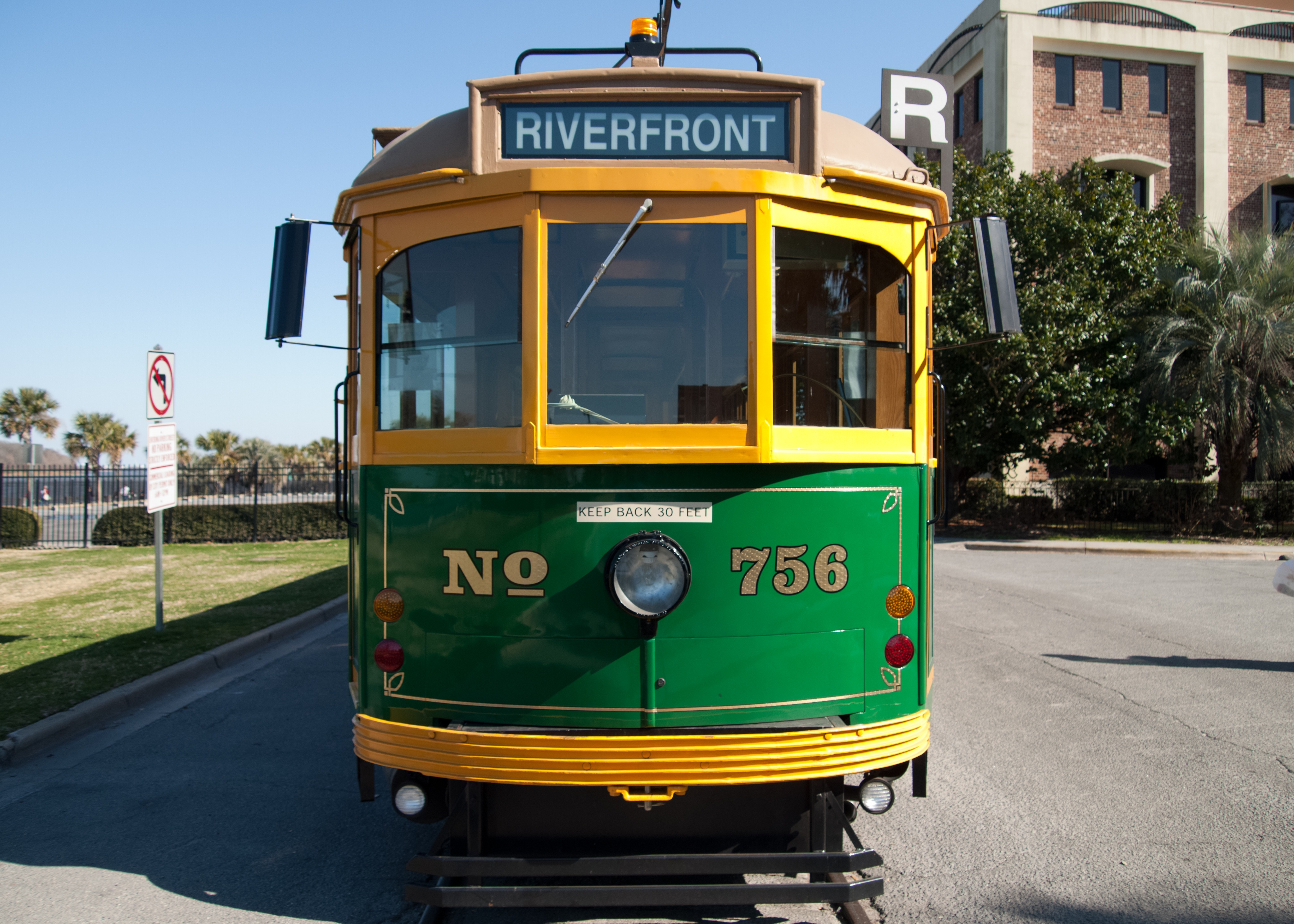 Car 756 of the River Street Streetcar line in Savannah, Georgia, USA, is an ex-Melbourne SW5-class streetcar.